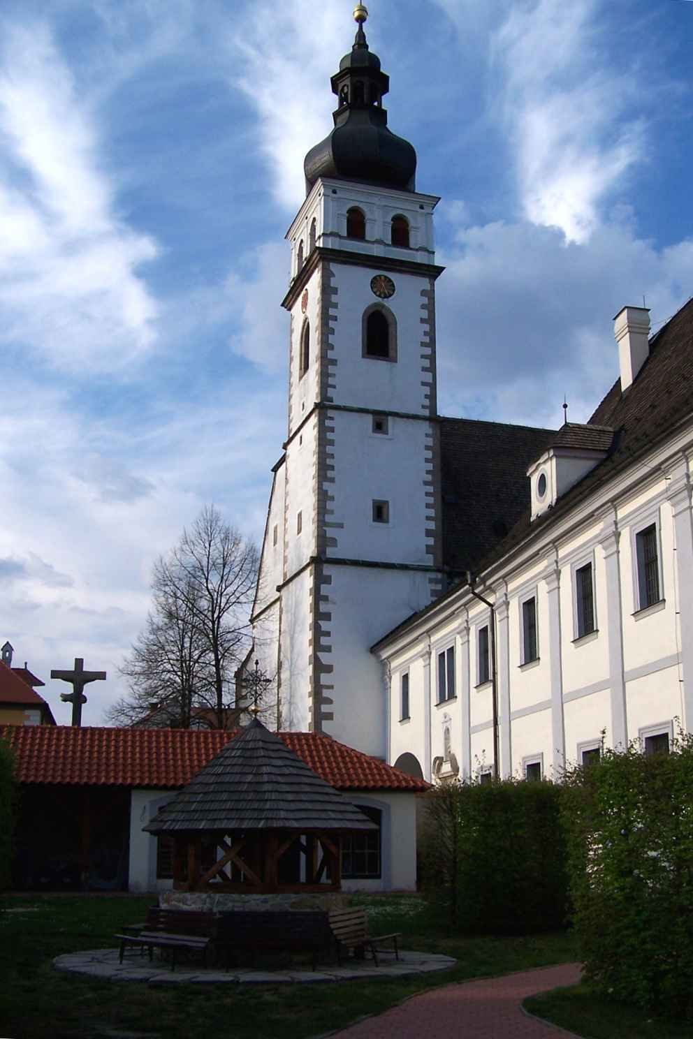 Church in Nové Hrady